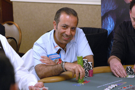 Sam Farha in 2006 World Series of Poker.